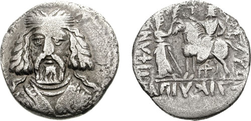 Coin of the Parthian king Artabanos II